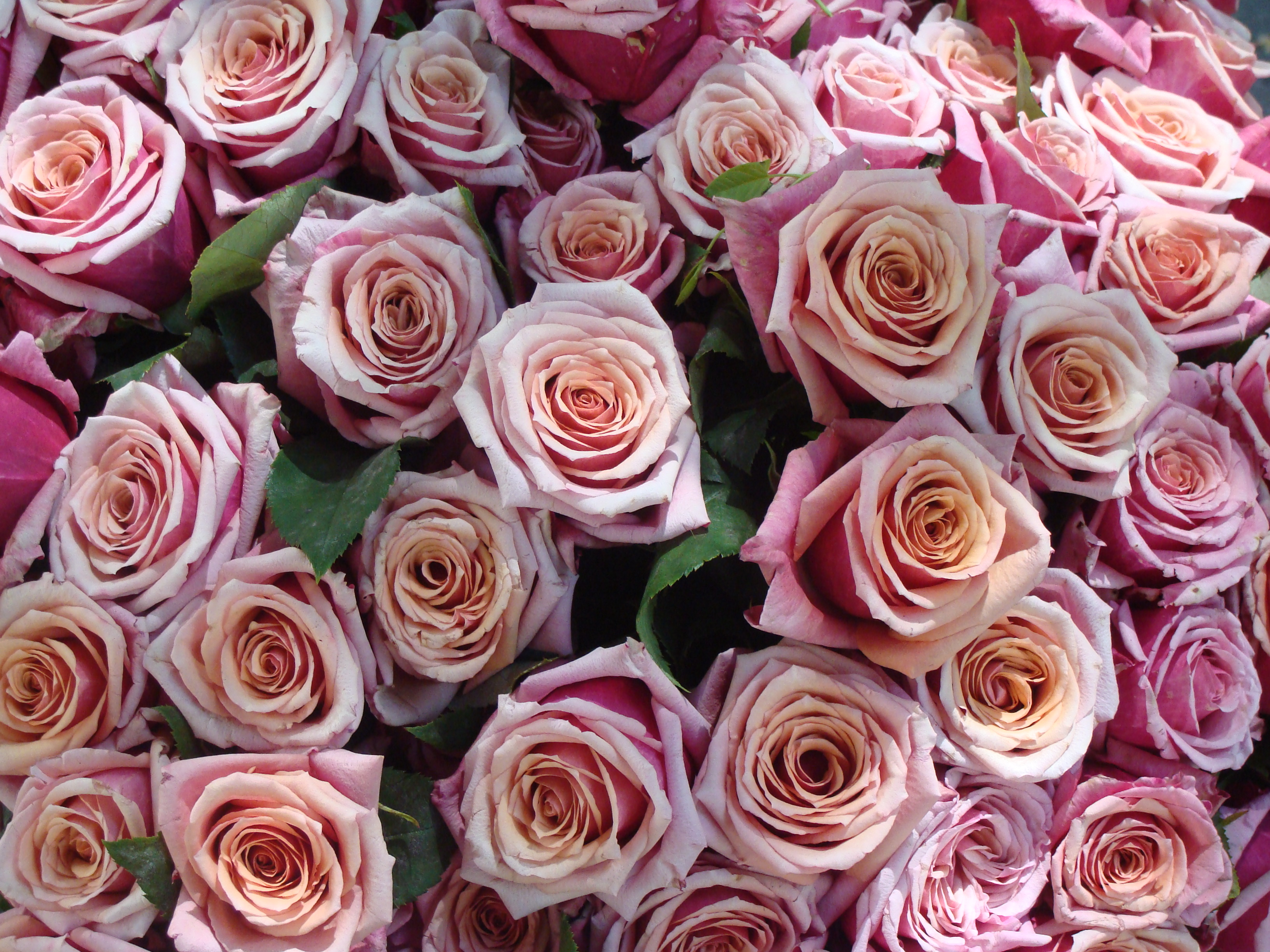 rose bunch, Rosa sp. cultivars, flower market, Place Monge, Paris